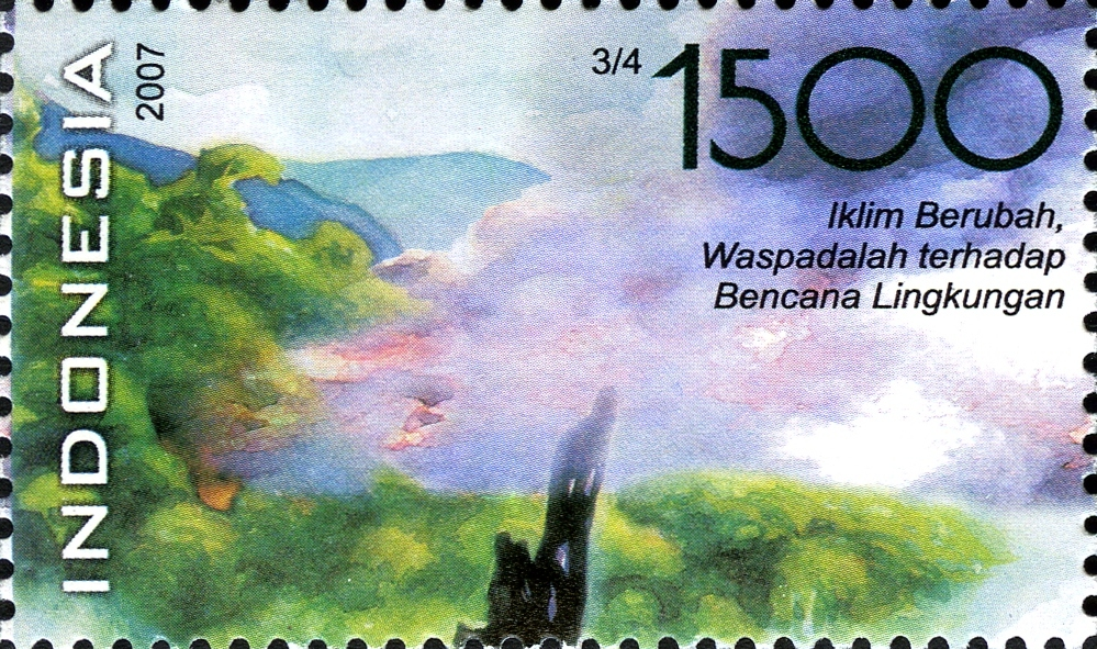 Stamps of Indonesia